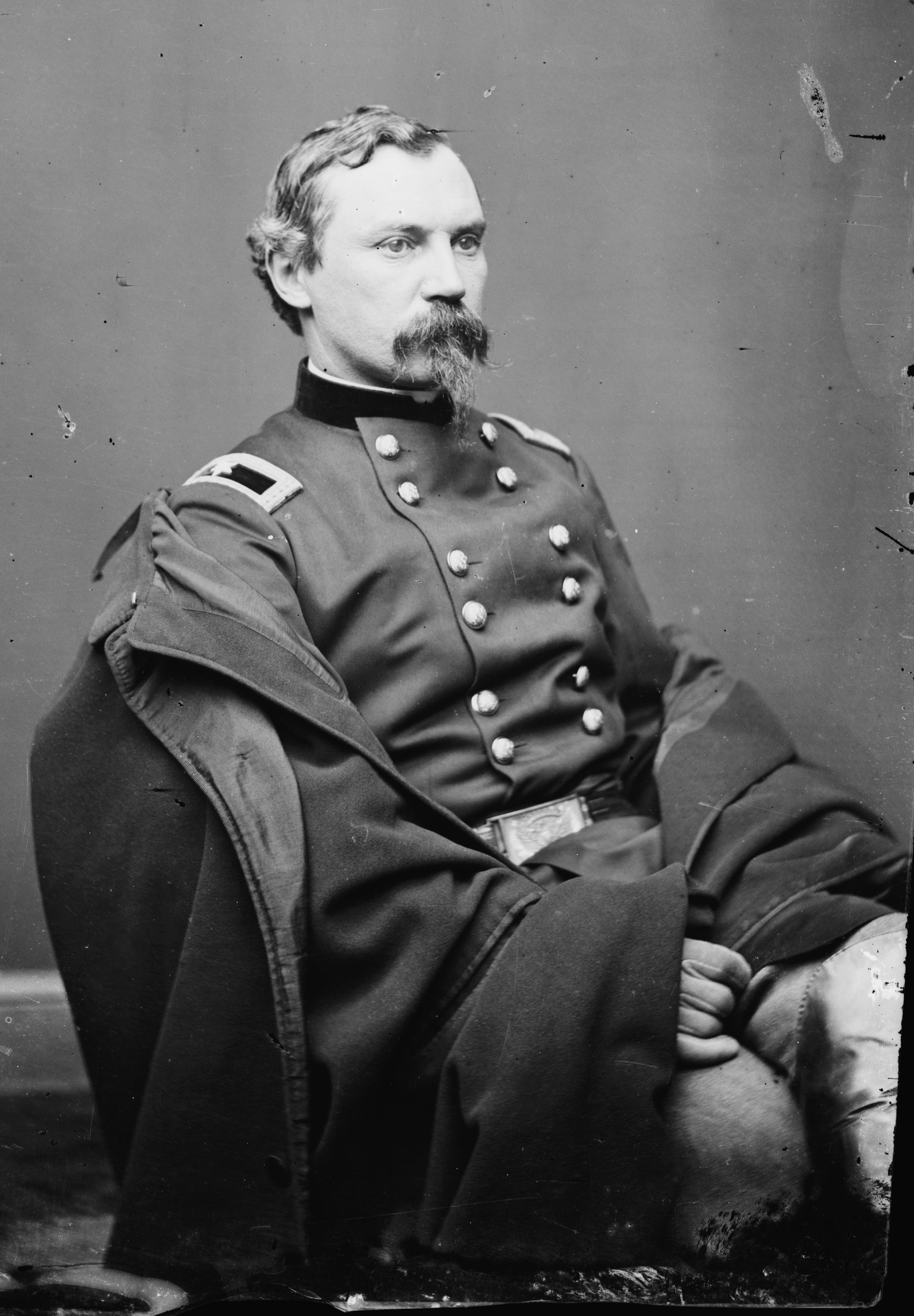 Innis N. Palmer. Library of Congress description: "Gen. Palmer, U.S.A."